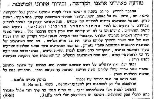 Ad from hatzfira newspaper 14-Jun-1899 Template:PD-Israe